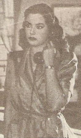 Madiha Yousri in a shot of the film "Dumu' el Farah".